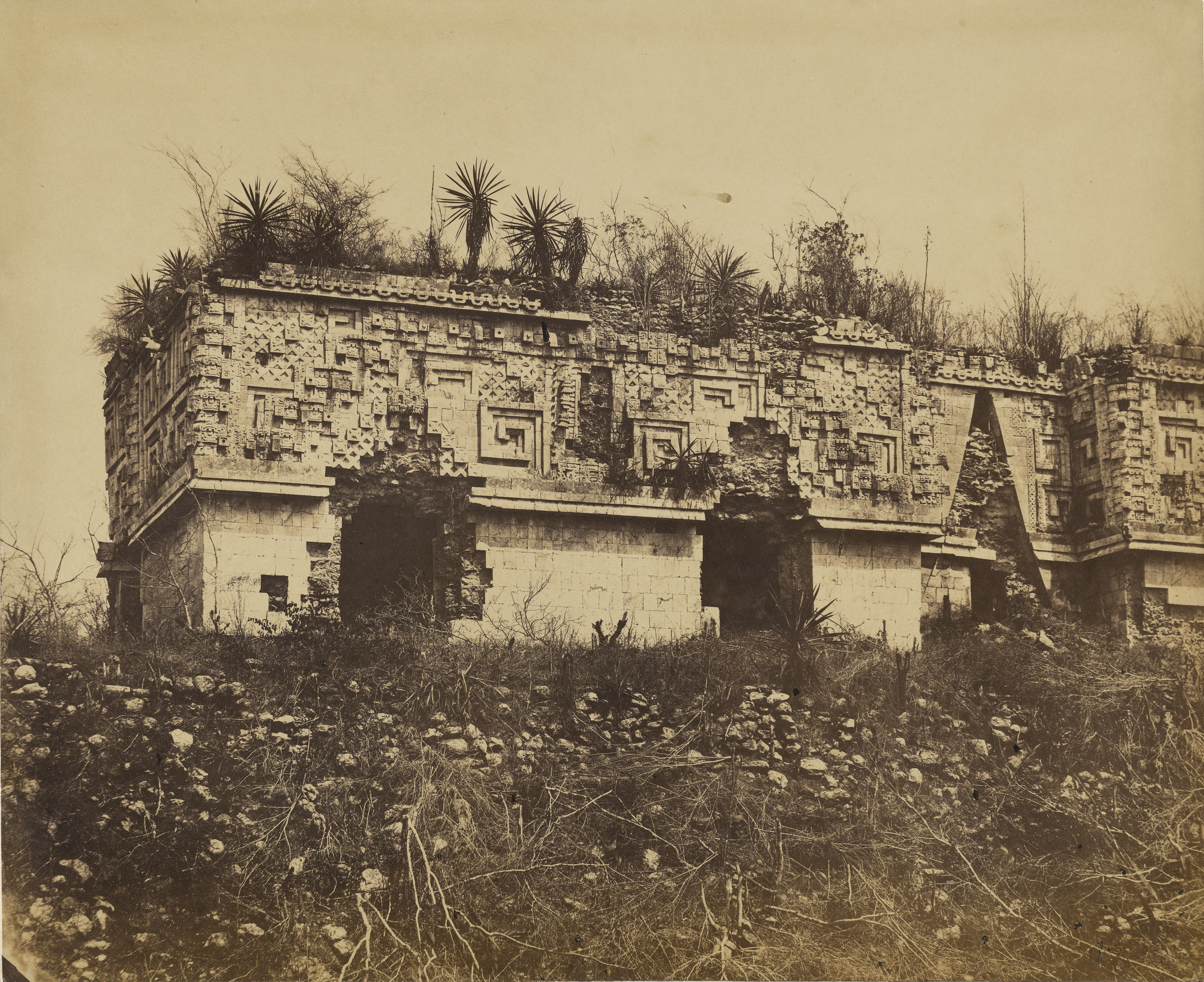 [Façade, Governor's Palace, Uxmal]; Désiré Charnay (French, 1828 - 1915); 1860; Albumen silver print; 33.7 x 41.3 cm (13 1/4 x 16 1/4 in.); 84.XP.960.28